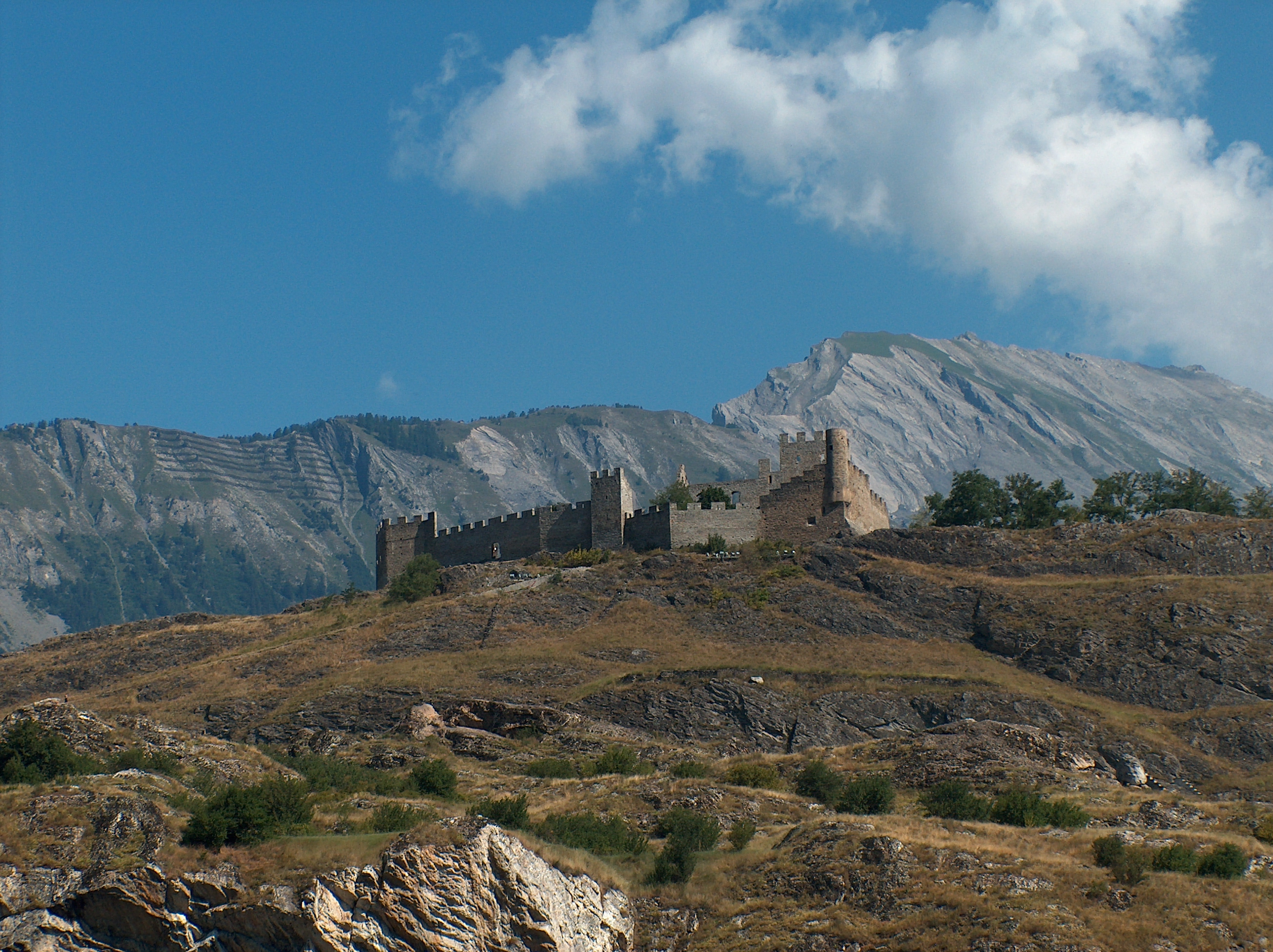 castle ruins on the top of Tourbillon (Sion/Switzerland); photographed from southwest